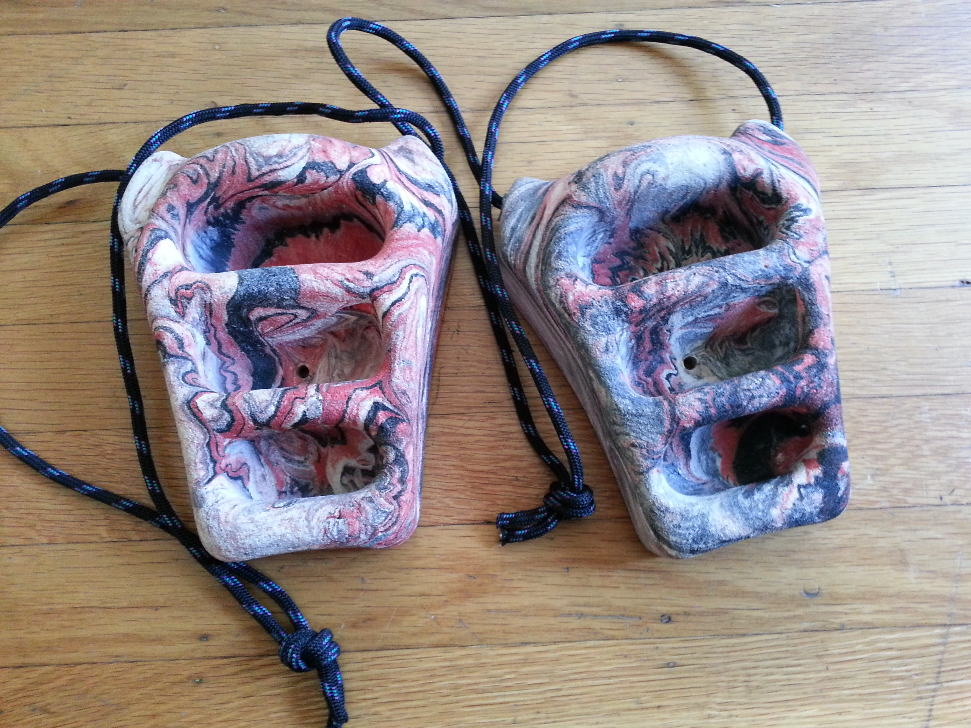 Metolius Rock Rings. Used for pullups